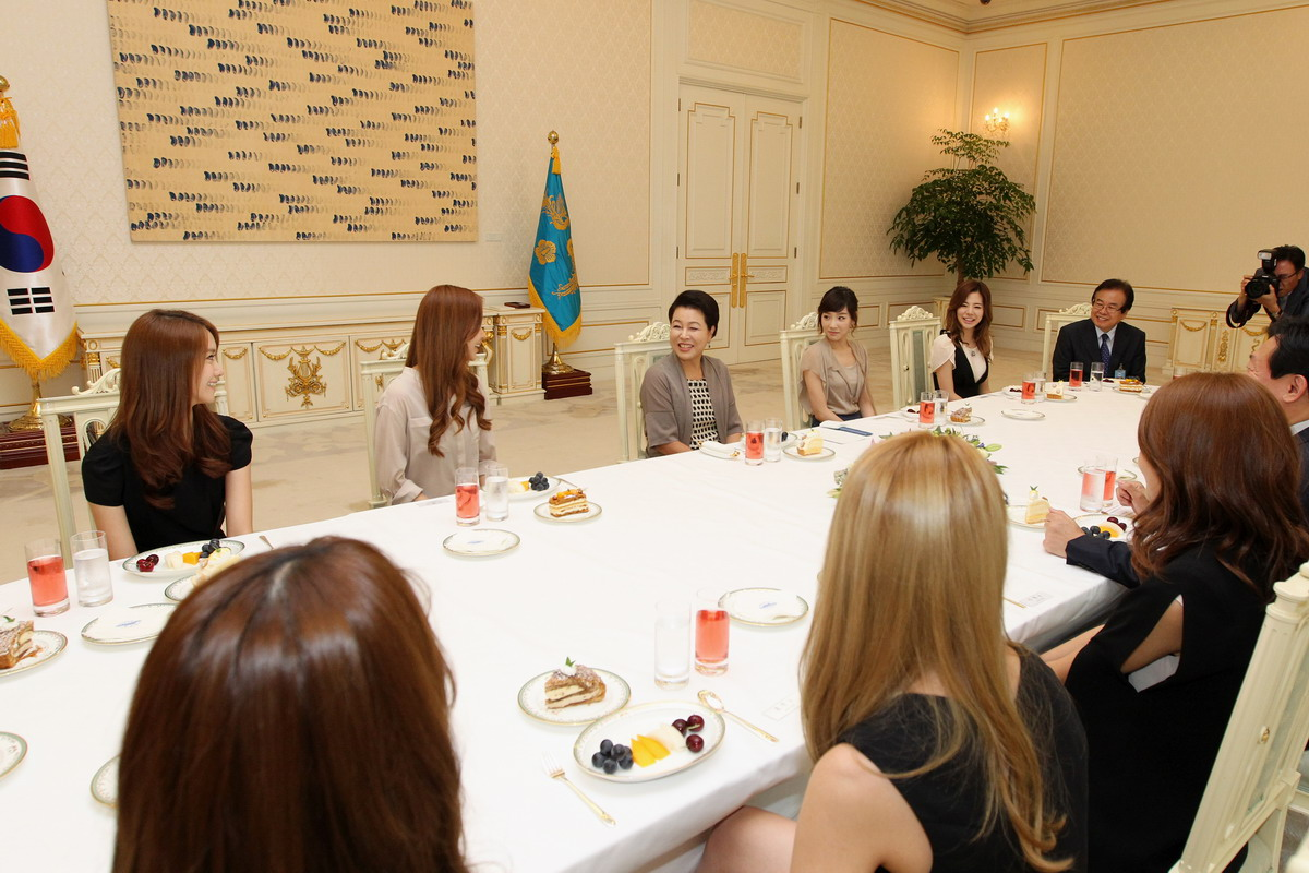 First lady Kim Yoon-ok (C) and pop group Girls' SNSD, Generation pose for a photo at the presidential office Cheong Wa Dae on Aug. 19. The members of the popular girl group were appointed promotional ambassadors for the Visit Korea Year 2010-2012 campaign on Aug. 11. The first lady serves as an honorary chairwoman for the three-year government program aimed at attracting more foreign visitors.